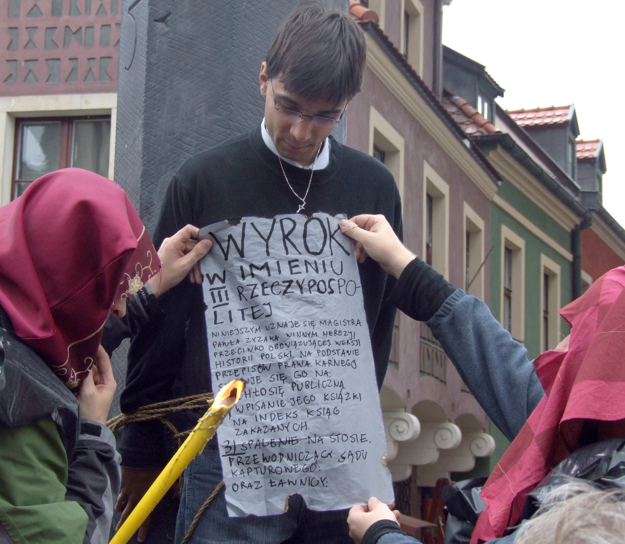 Polish publicist, Paweł Zyzak, known for his book unmasking Lech Wałęsa's biography. Here in a political happening where he is about to be burnt at stake for "blasphemy" against the highly-praised former president